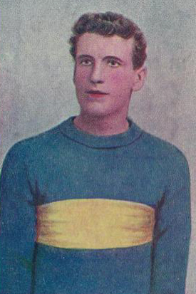 Cigarette card of Ned Alley from the 1905 Wills Past and Present Champions series.